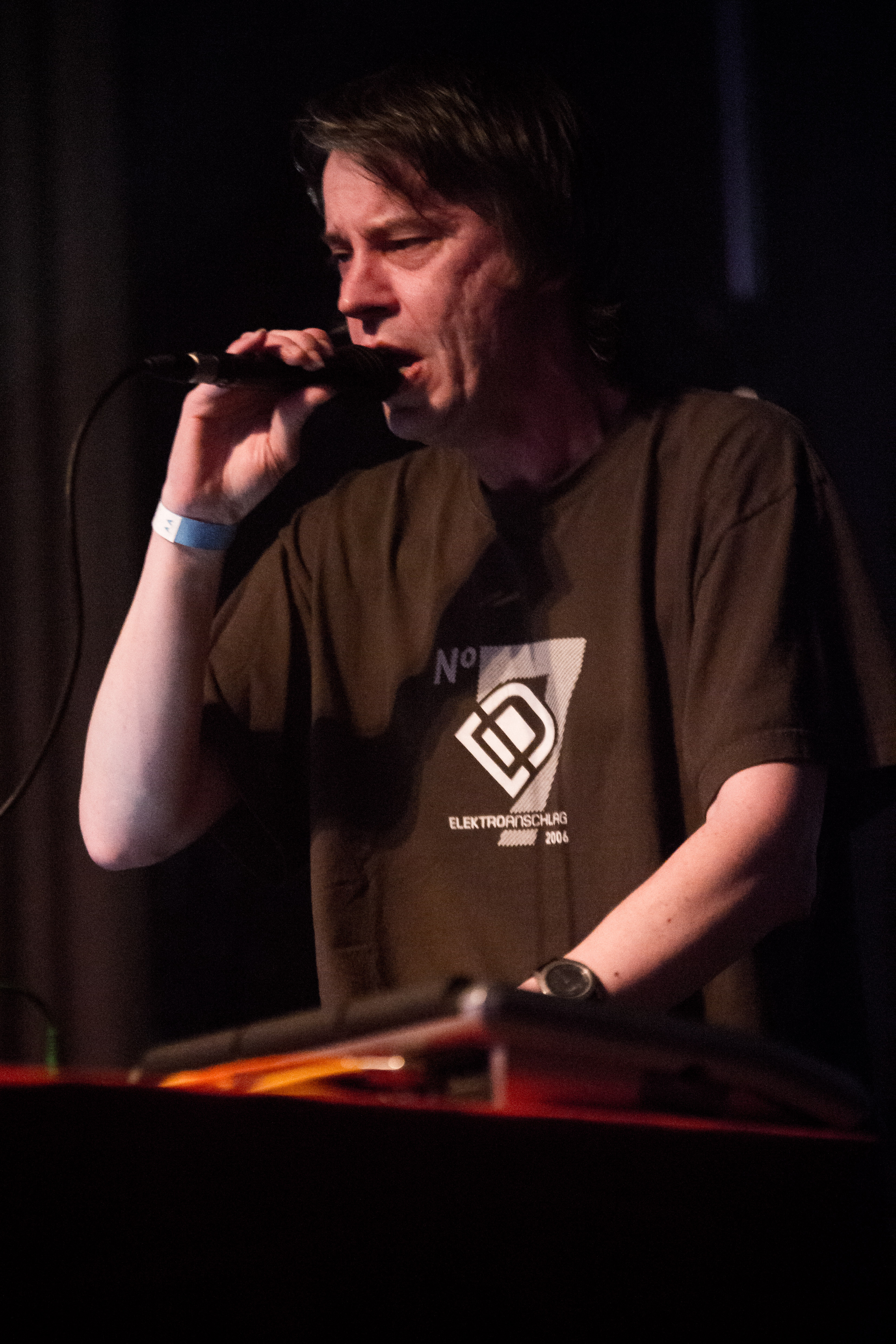 Lauter Krach, Kulturhaus